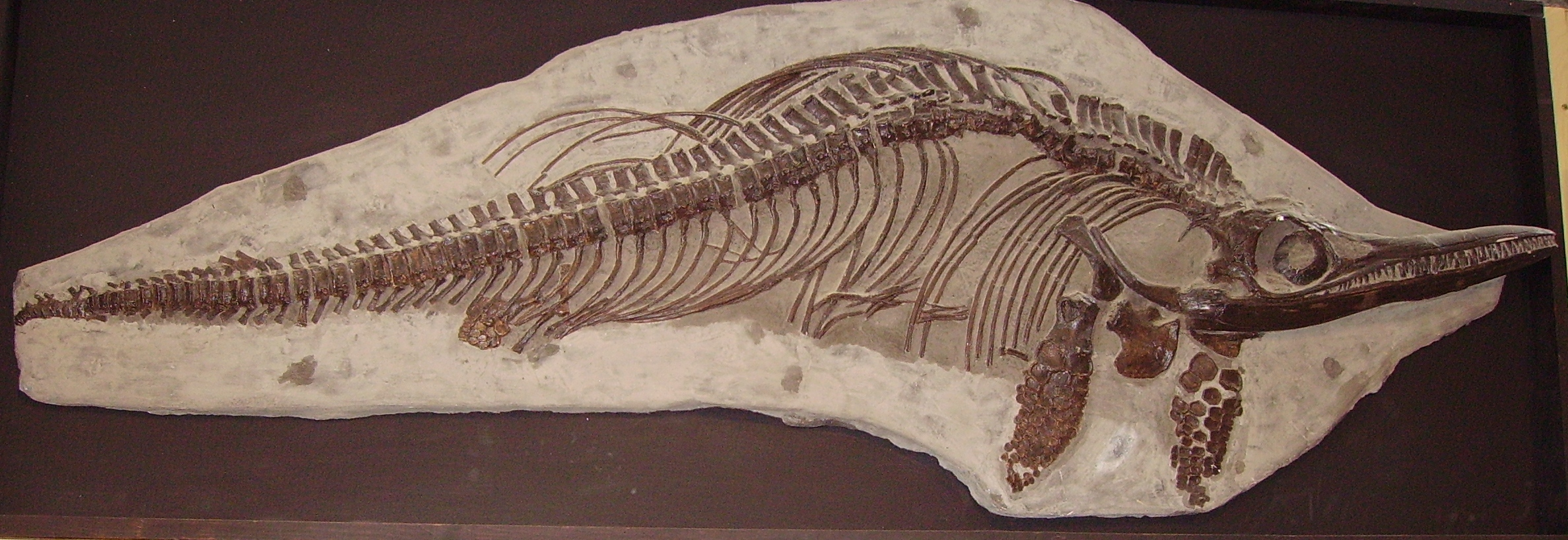 Photographer: User:Ballista